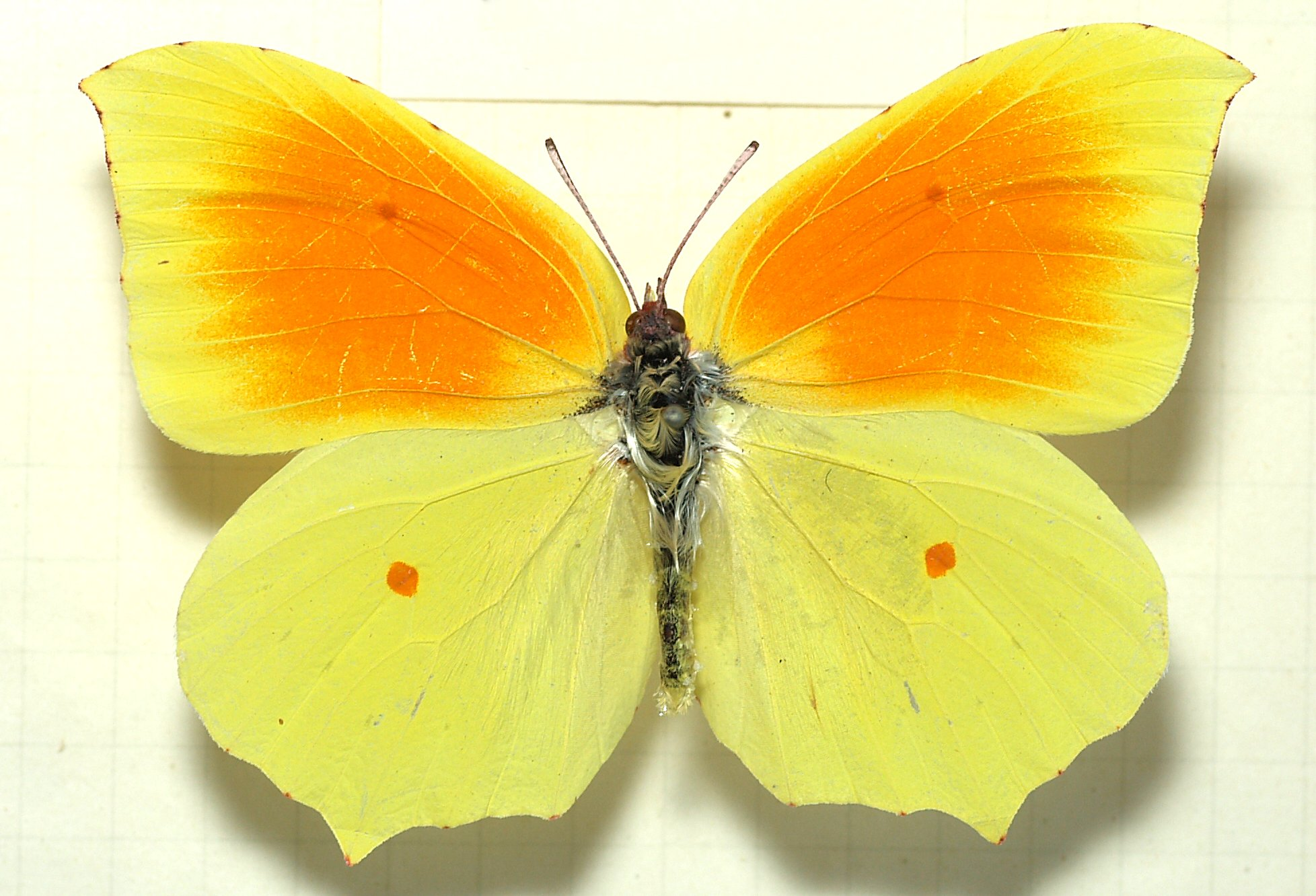 Gonepteryx cleopatra